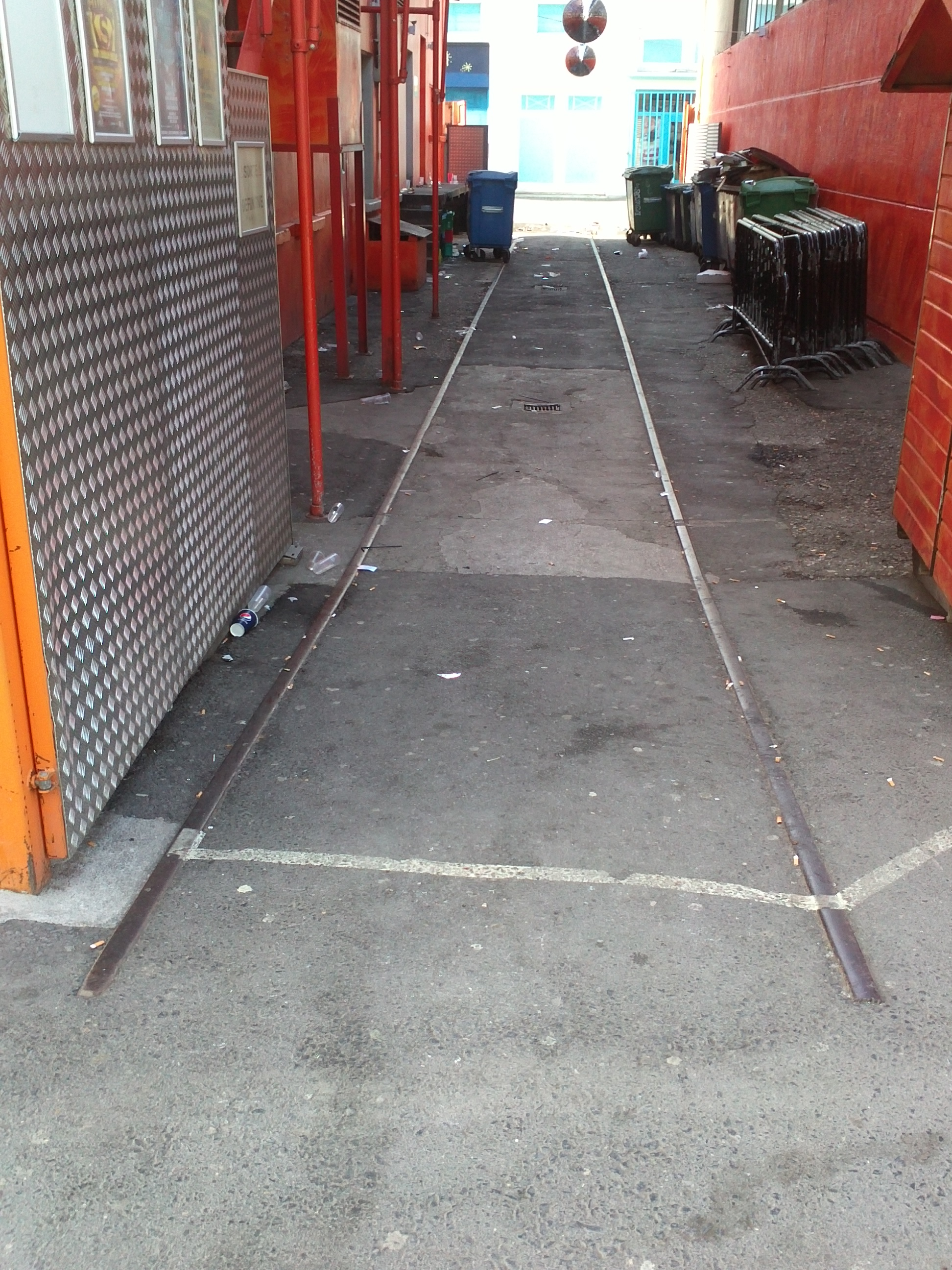 Vestige of an old access track to the warehouses of the Flon goods station.